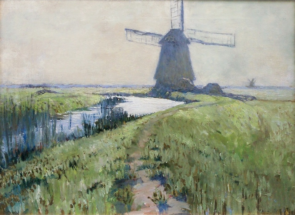 Landscape with windmills, Rijsoord, Holland